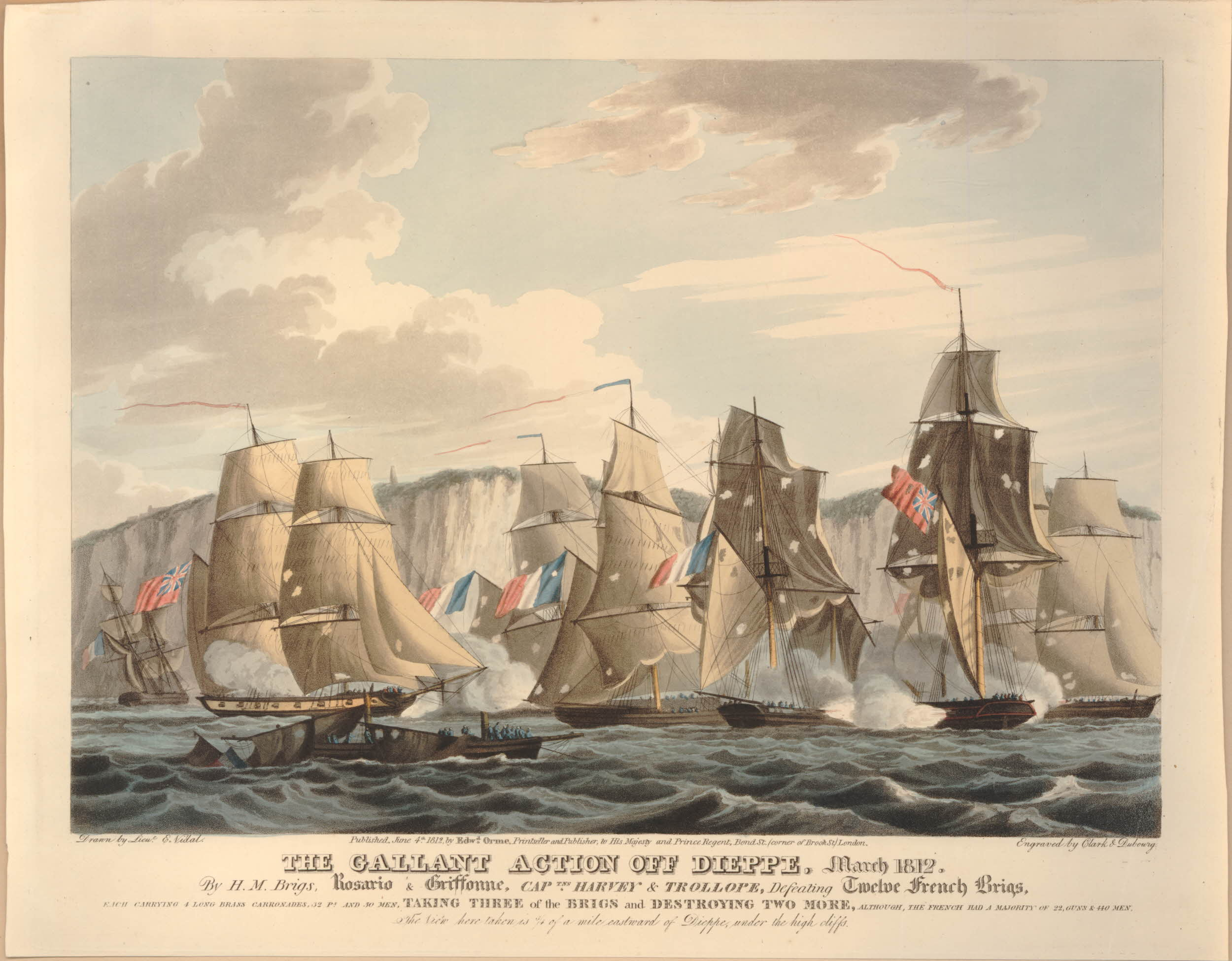 The gallant action off Dieppe, March 1812. By H.M. Brigs Roasario & Griffonne , Cpan Harvey & Trollope, defeating 12 French Brigs, each carrying 4 long carronades, 32 Ps and 30 men, Taking Three of the Brigs and destroying two more, although the French had a majority of 22, guns & 440 men. The view here taken is 3/4 mile eastward of Dieppe, under the high cliffs. Drawn by Lieut E. Vidal Print made by: John Heaviside Clark. Print made by: Matthew Dubourg. Published by: Edward Orme. After: Emeric Essex Vidal 1917,1208.4643 Description Recto Two British brigs in action against 12 French brigs, one of which foundered in foreground. 1812 Etching and aquatint, hand-coloured Lettered with title followed by an account of the attack; production details beneath the image, "Drawn by Lieu.t E. Vidal - Published, June 4th.1812 by Edwd. Orme Printseller & Publisher to his Majesty and Prince Regent., Bond St. (corner of Brooke St) London.- Engraved by Clark & Dubourg." Heightː 300mm Width: 376mm